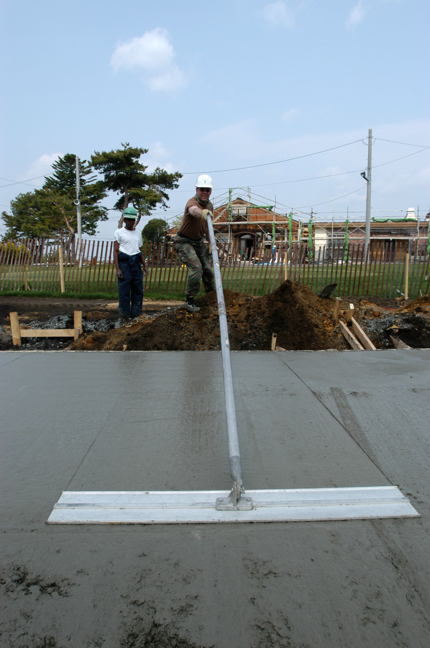 Naval Air Facility Misawa, Japan (May 14, 2003) -- Chief Builder R. Brett James, a U.S. Navy Reservist, volunteers his time to level out a concrete foundation as part of a Navy Misawa Seabee project. The U.S. Navy Seabees and Japanese Master Labor Contract employees assigned to Naval Air Facility Misawa's Public Works Department spread concrete for a massive pavilion at the Misawa Air Base's Gosser Memorial Golf Course. When completed, the multi-purpose covered pavilion will measure 24 by 40 feet and hold up to 75 people. U.S. Navy photo by Photographer's Mate 2nd Class John Collins. (RELEASED)